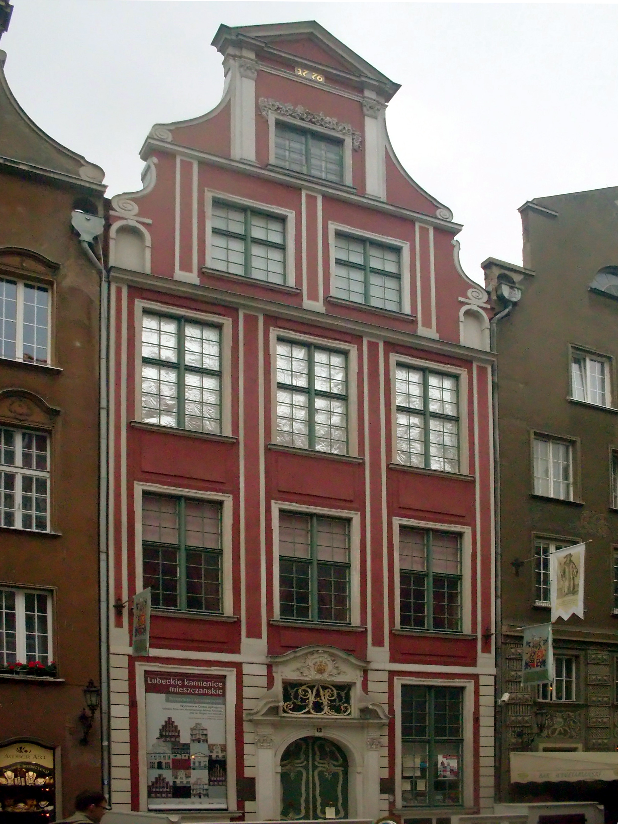 Uphagen's House. Historic tenement at Long Street 12 in Gdańsk.